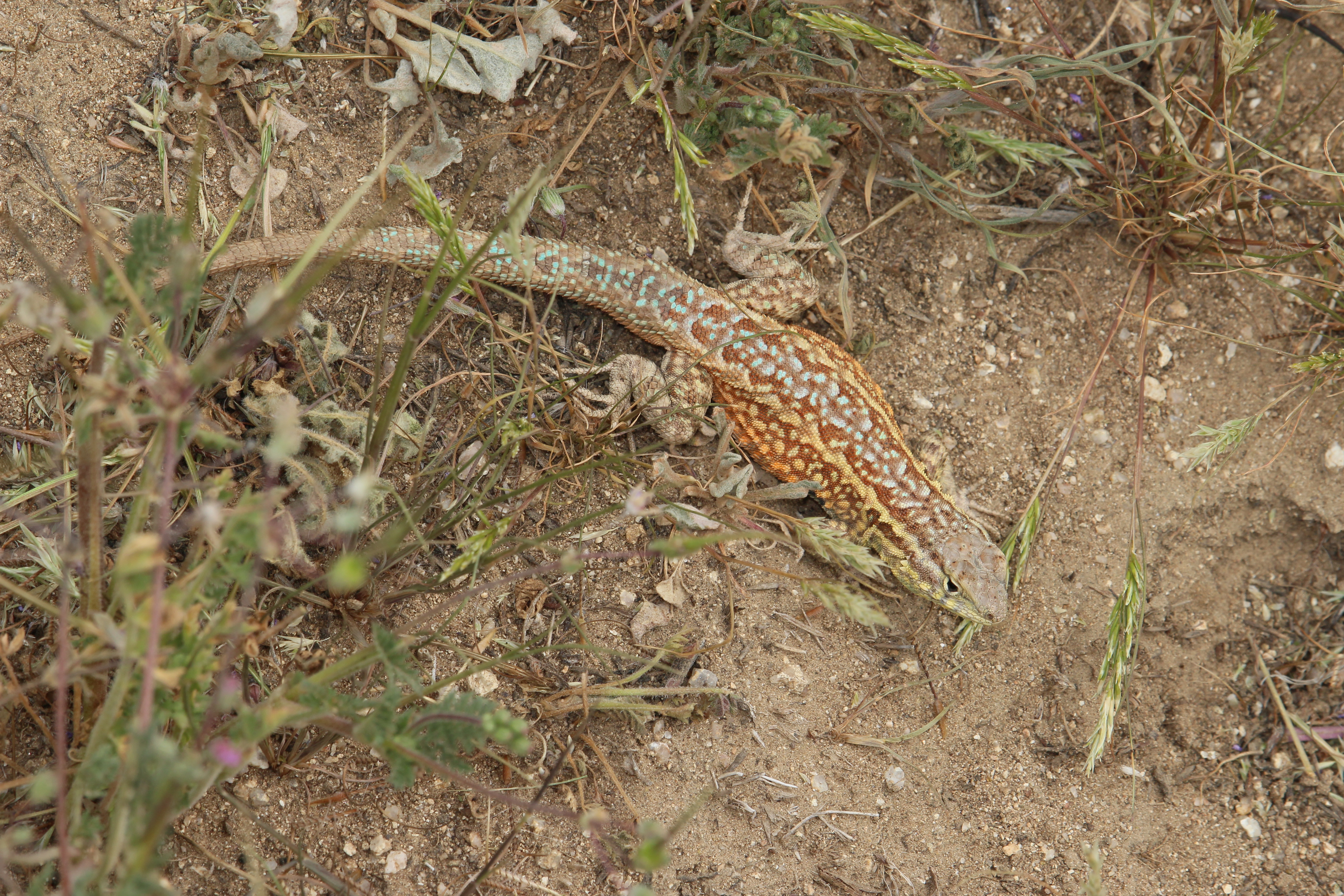 Western Side-blotched Lizard (male) Identification by: Linda Edwards and Vern Benhart Viewpoint location: Antelope Valley California Poppy State Reserve, Lancaster, California Viewpoint elevation: 864 meter (2833 ft) Location source: Garmin GPSmap 60CSx Location Datum: WGS84